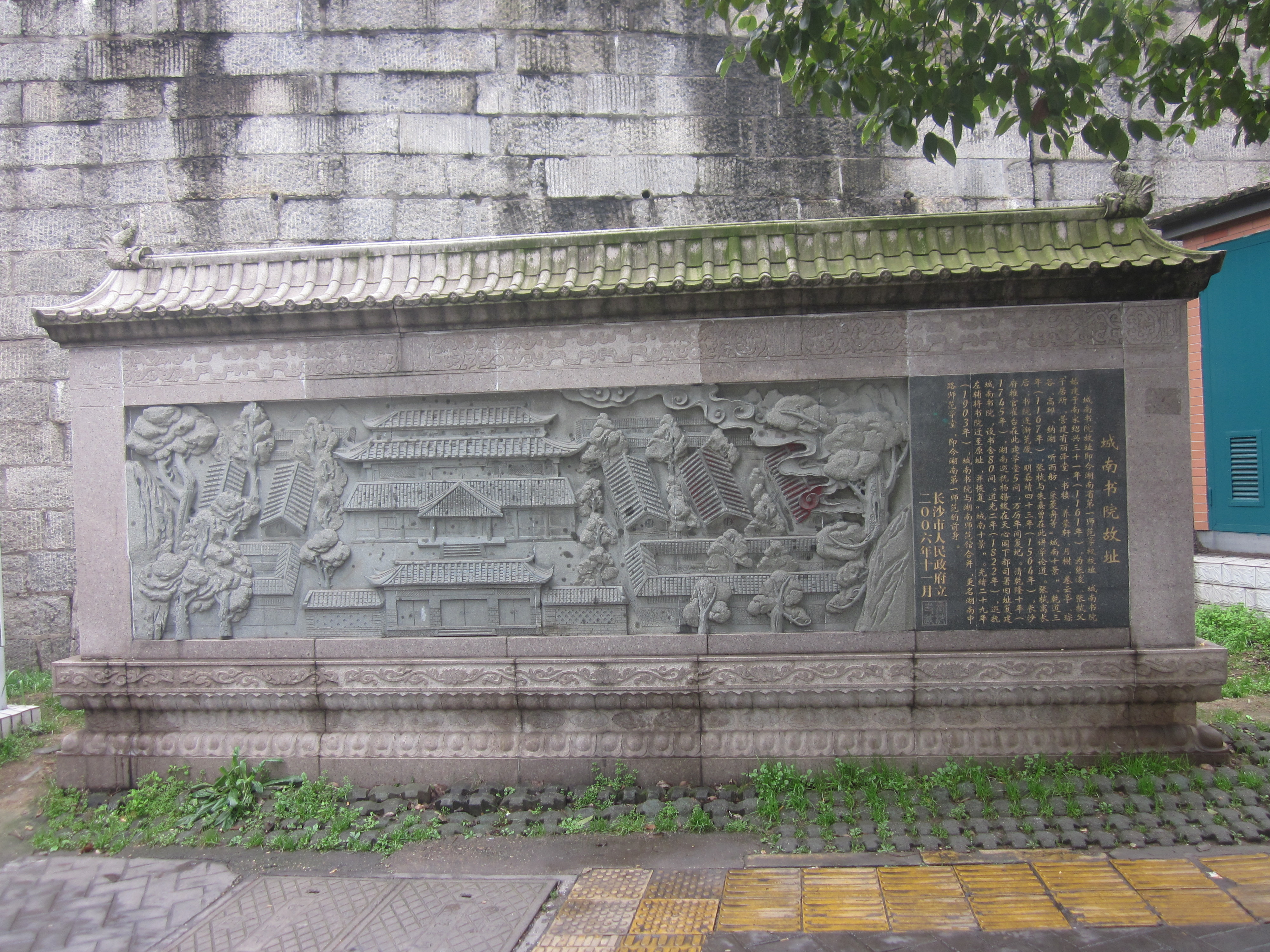 The Site of Chengnan Academy near Tianxin Pavilion in downtown Changsha, Hunan, China. It was built by Zhang Jun and Zhang Shi in the 31st Year of Shaoxing of Emperor Gaozong of Song Dynasty, namely 1161.